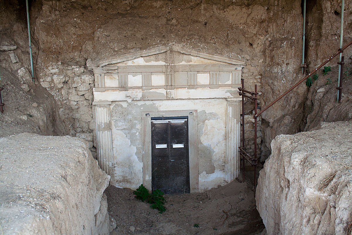 Macedonian tomb, located South-East of Gefira